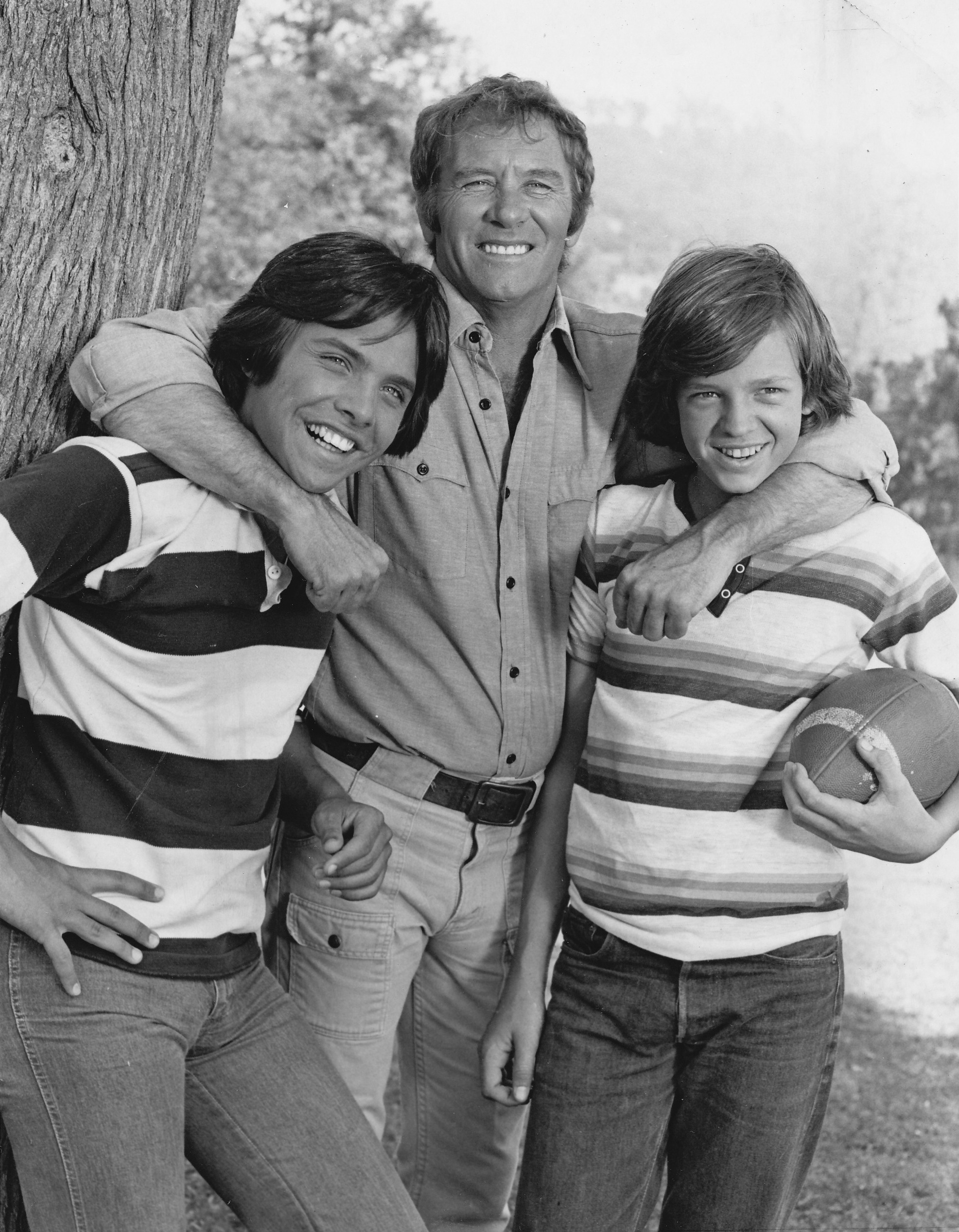 Publicity photo of American actors (L–R) Clark Brandon, Bert Kramer and James Vincent "Jimmy" McNichol promoting the upcoming premiere of the television series The Fitzpatricks.